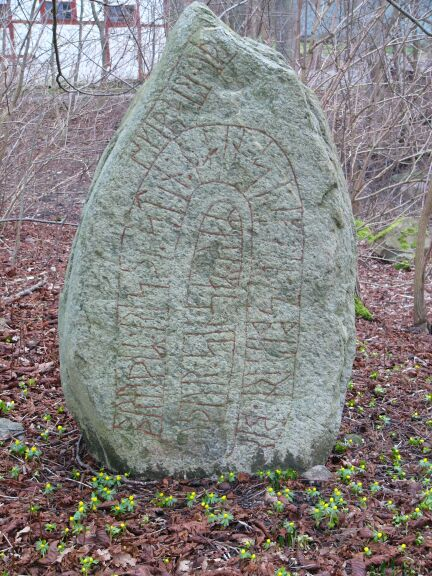 Solberga runestone DR277 (Torsjö)